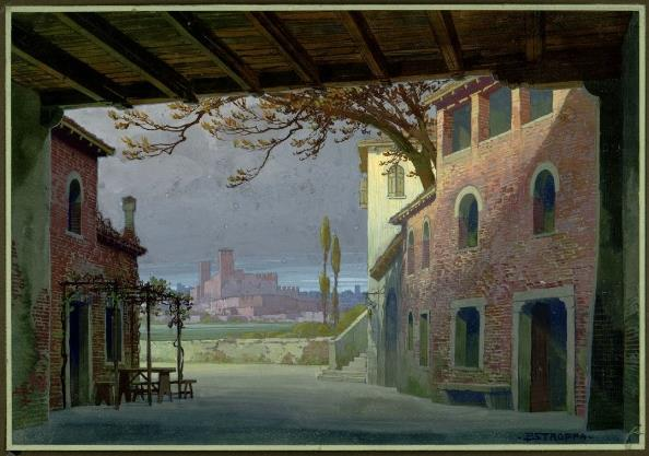 Scene scetches by Pietro Stroppa for the first production of Zandonais opera Giulietta e Romeo, Milan 1922 - 3. Un rustico piazzale in Mantova